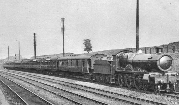 Great Western Railway 4-6-0 locomotive on up 'Cornish Riviera Express' near Acton, London. The original print states that it is 4000 (Star) Class 4038 Queen Berengaria, however it appears to be a 2900 (Saint) Class.